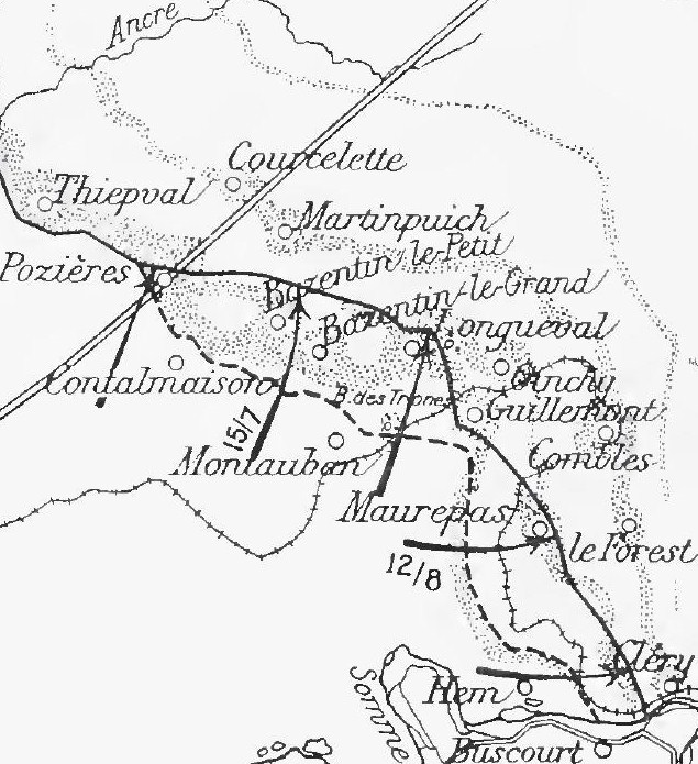 Diagram of Franco-British advances on the Somme, July-August 1916 (Interweb seach failed to identify draughtsman)